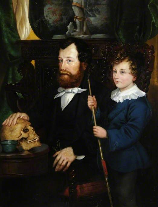 Thomas Bateman (1821–1861), and His Son, by Thomas Joseph Banks, now at Museums Sheffield; Supplied by The Public Catalogue Foundation